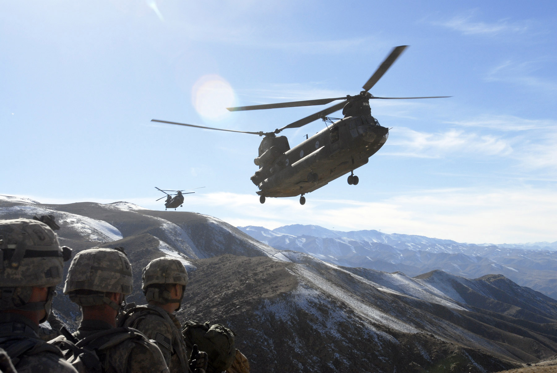 Standing by on a hilltop, Soldiers with the 101st Division Special Troops Battalion, 101st Airborne Division watch as two Chinook helicopters fly in to take them back to Bagram Airfield, Afghanistan, Nov. 4, 2008. The Soldiers searched a small village in the valley below for IED making materials and facilities.